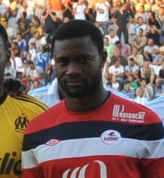 Aurélien Chedjou playing 2011 Trophée des champions.